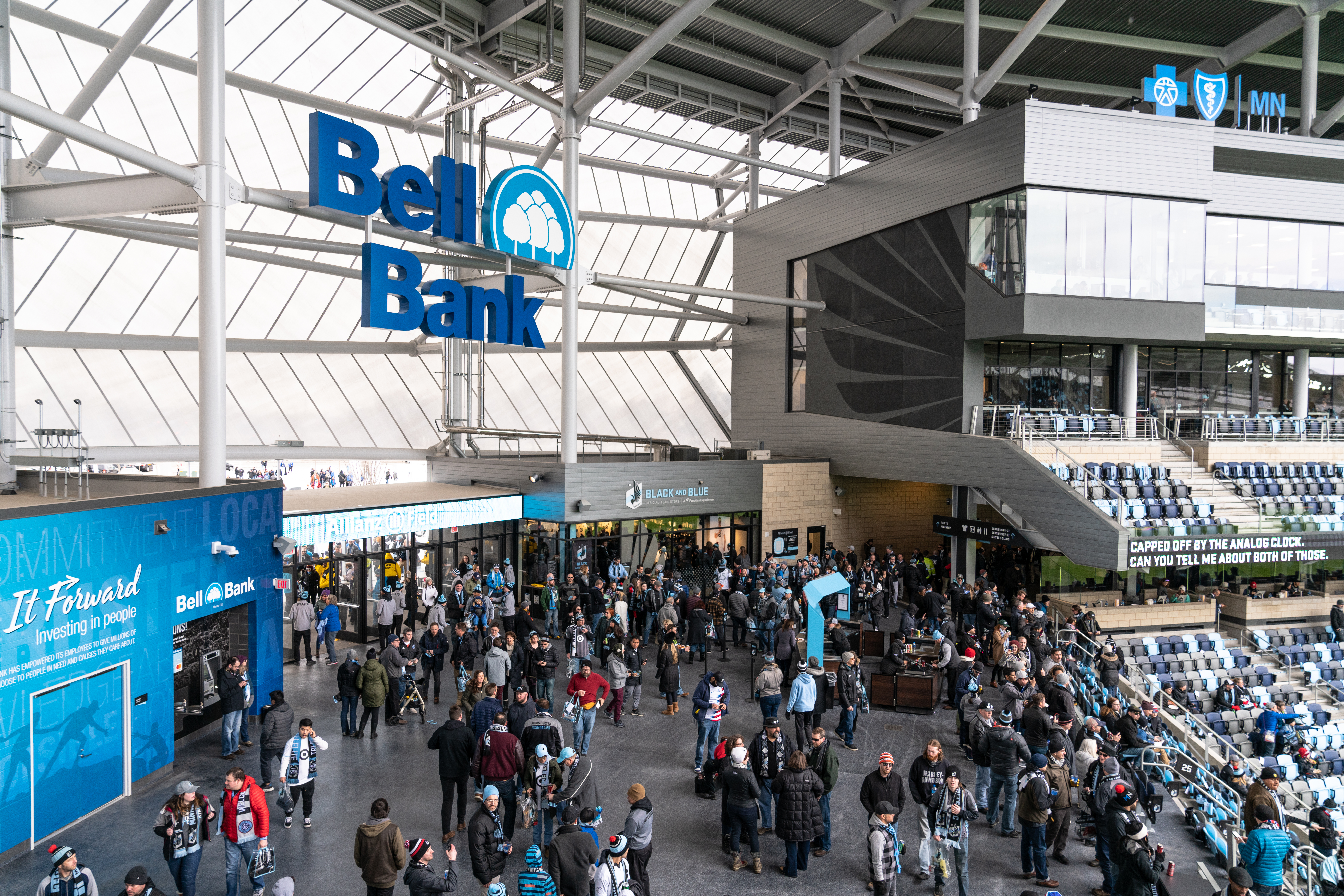 The southwest gate at Allianz Field is named Bell Bank Gate, as part of the bank's partnership with Minnesota United Football Club.